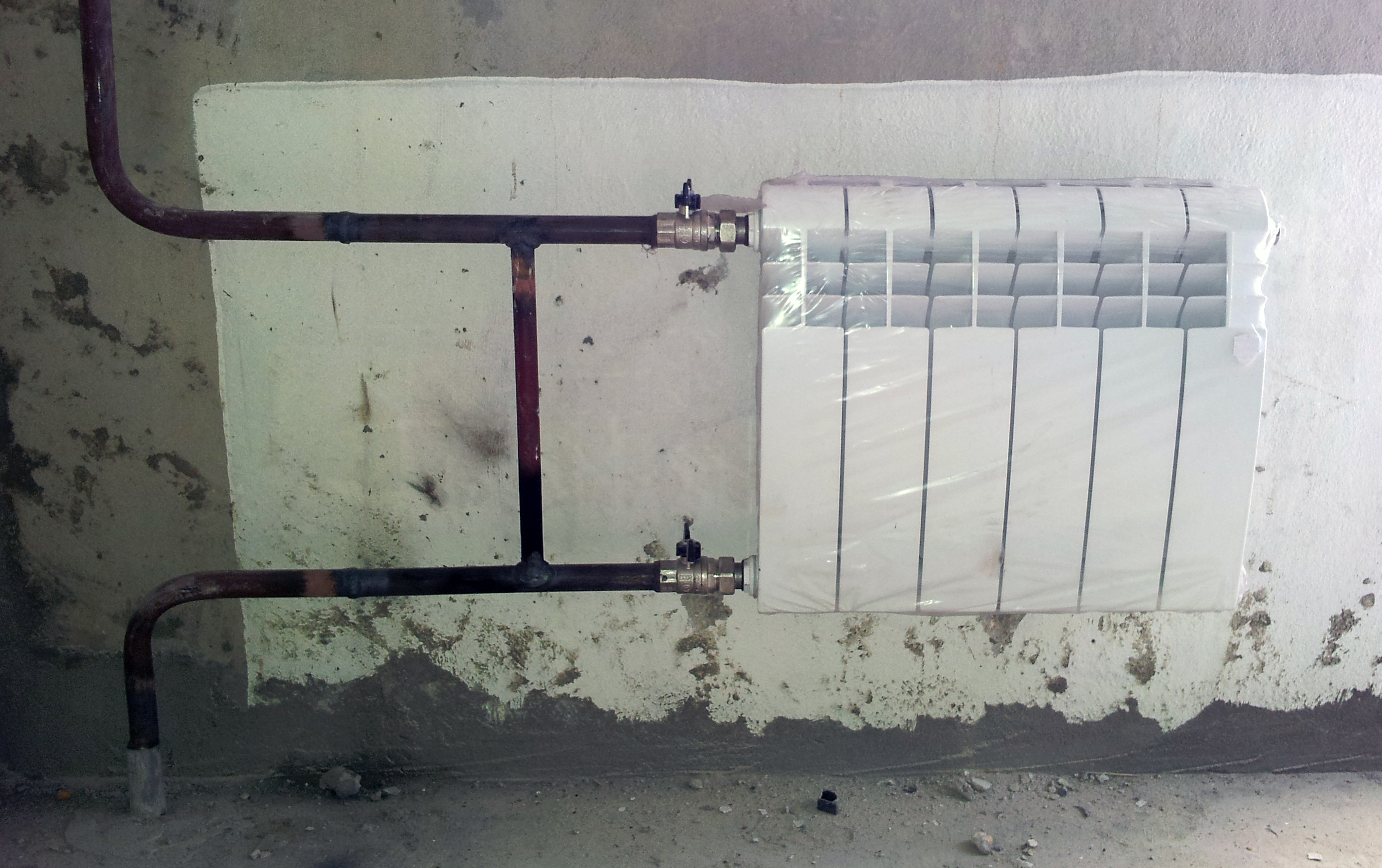 bimetal radiator